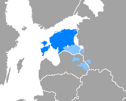 Estonian language